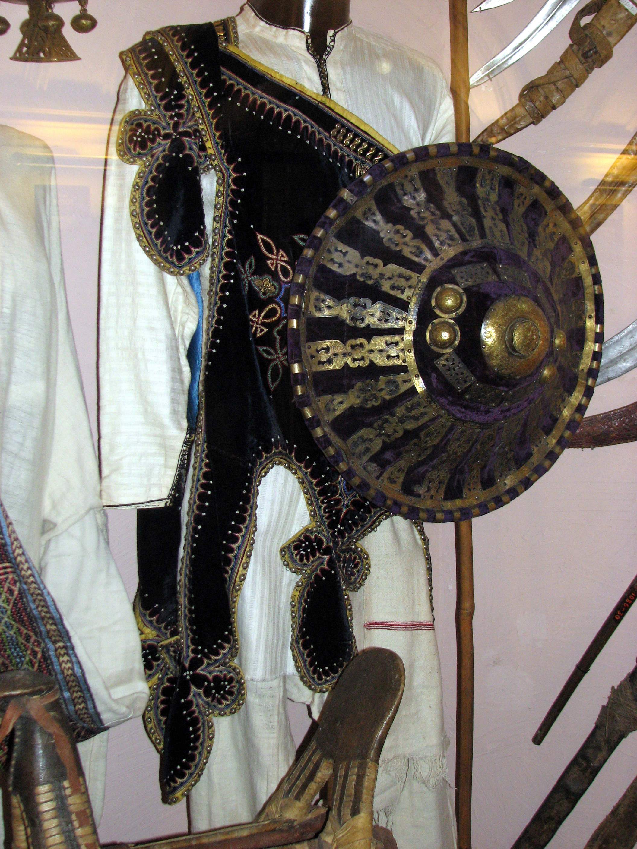 Saint Petersburg. Kunstkamera. Hall of Africa. A parade clothes of the Ethiopian nobleman (black cape from a velvet). On the right: a wooden parade shield (furnish: a skin of a buffalo, the Persian velvet, the metal gilt plates); Ethiopia, Amhara.